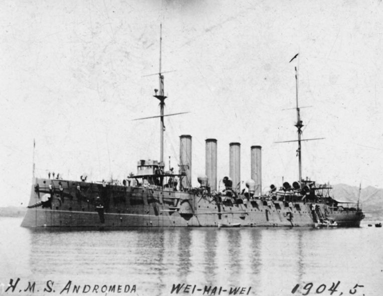 The British cruiser at Weihaiwei, China